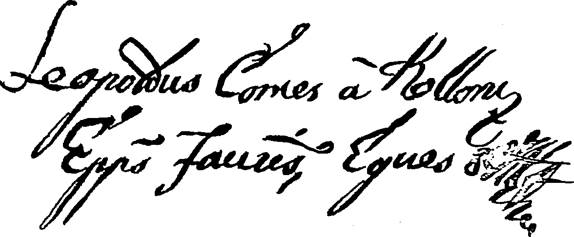 signature of Leopold Karl von Kollonich, archbishop of Esztergom.